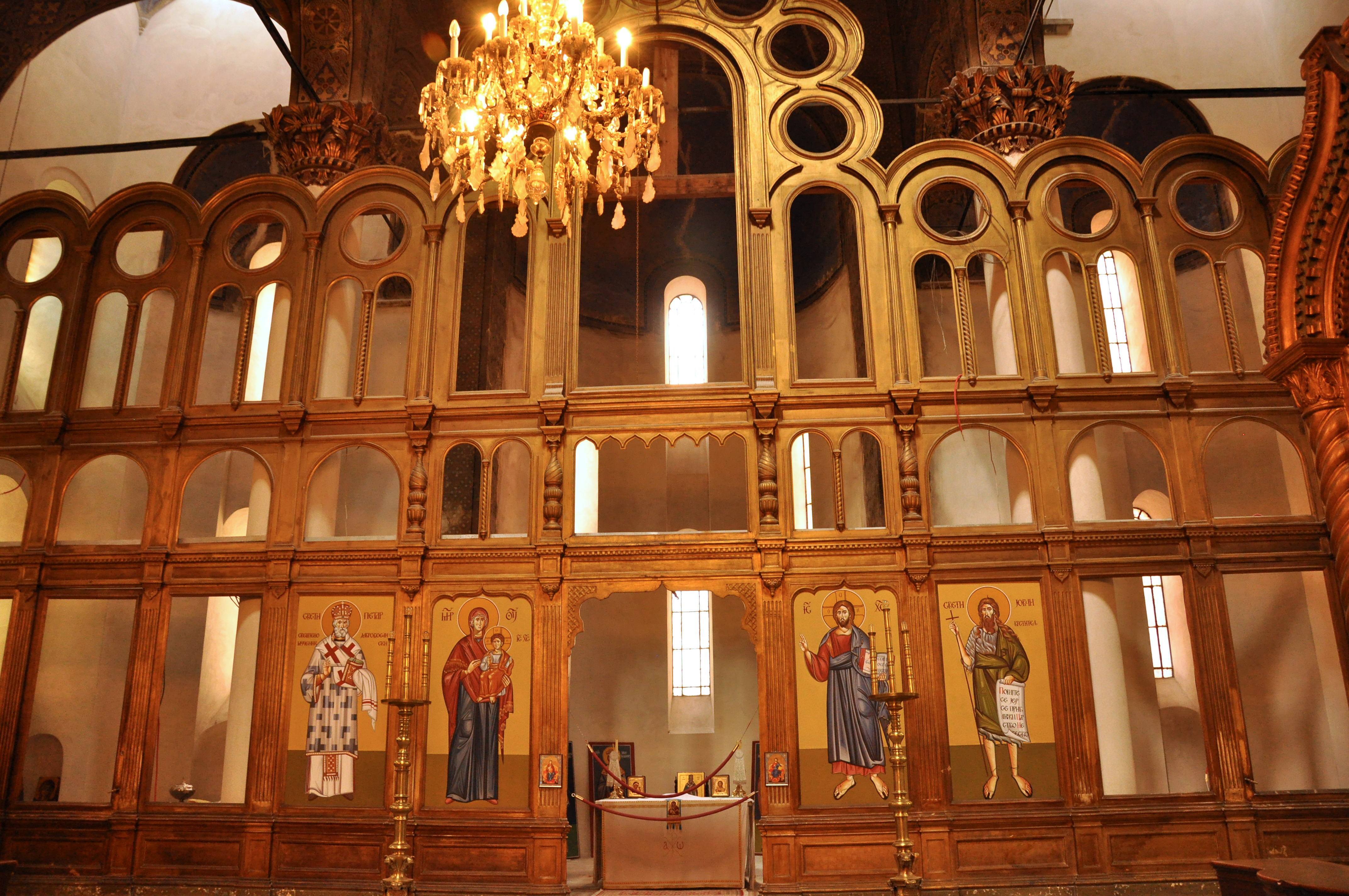 The Church of the Most Holy Mother of God was built between 1863-1874 and contains large iconostases holding icons made in Russia, installed here by Russian masons sent by Tsar Alexander II. As a proof of religious tolerance, Sultan Abdul Aziz and the Prince of Serbia donated 500 gold ducats towards the construction of the building. Serb forces shot up their own church during the war and the Greek government is now involved in helping restore the damage.